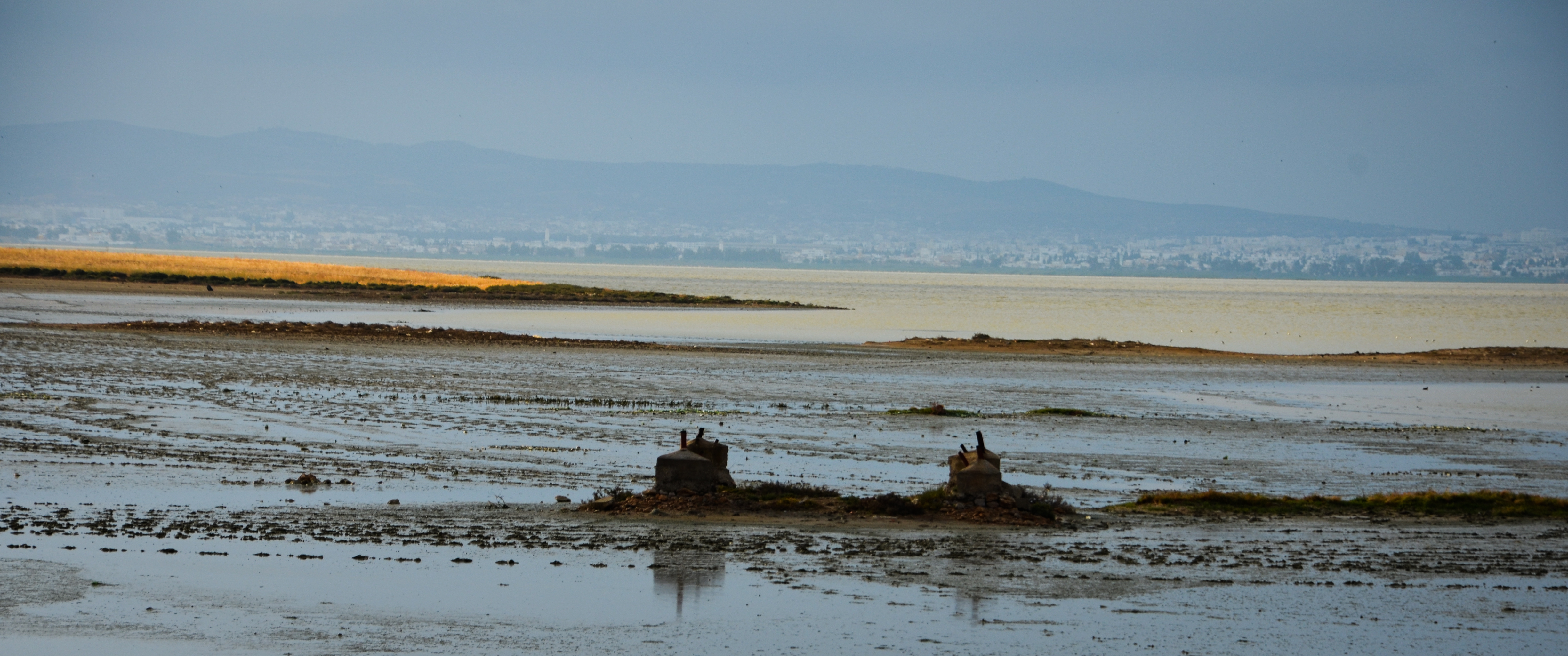 sabkha